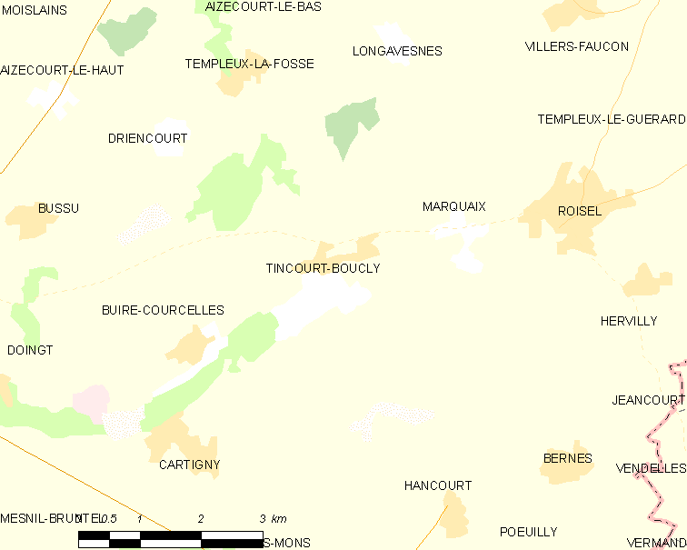 Map of French municipality Tincourt-Boucly